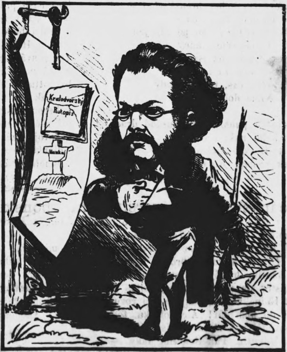 Cartoon of David Kuh (1819-1879), German-speaking journalist and politician from Prague.